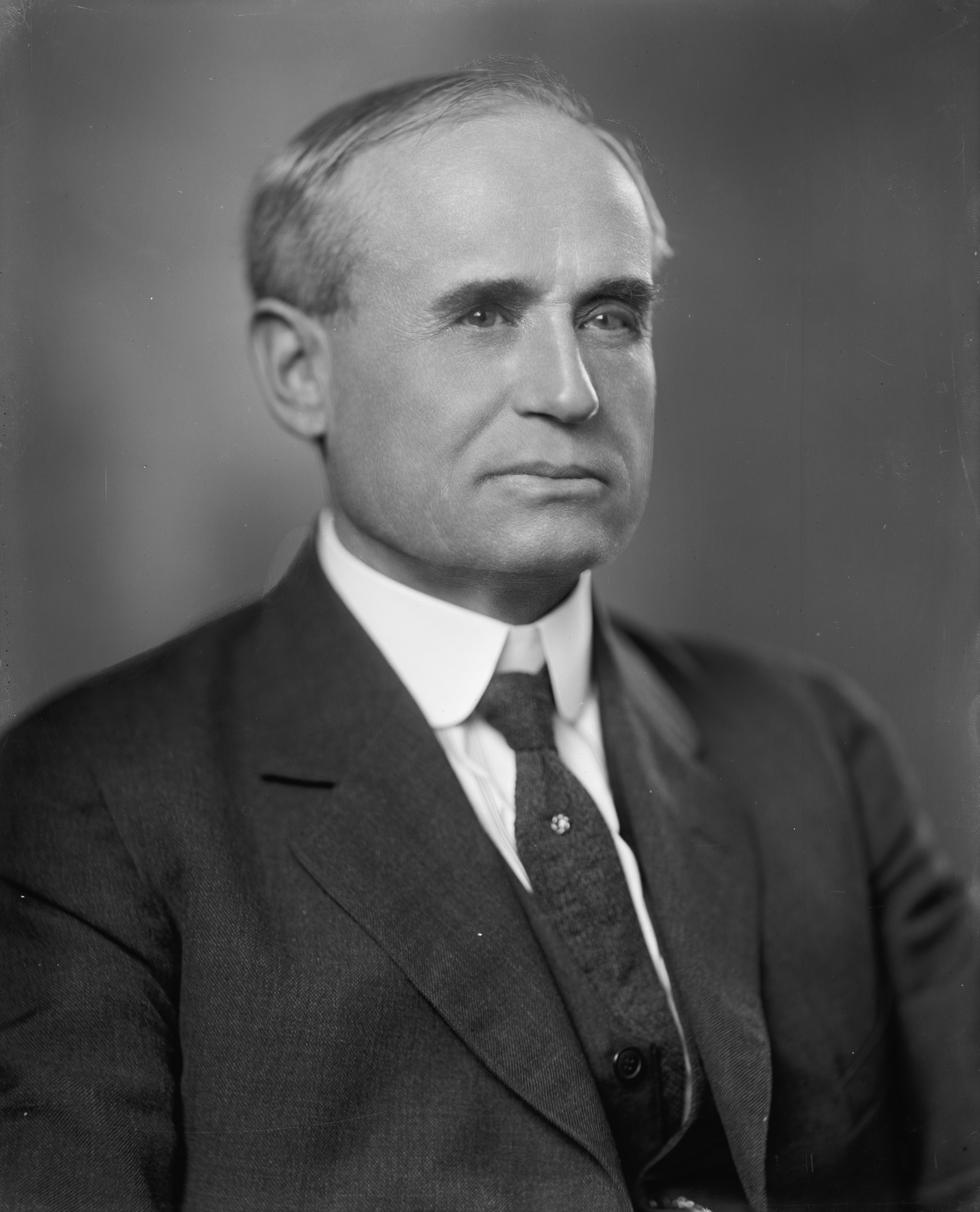 Title: WOOD, WILLIAM R. HONORABLE Abstract/medium: 1 negative : glass ; 8 x 10 in. or smaller